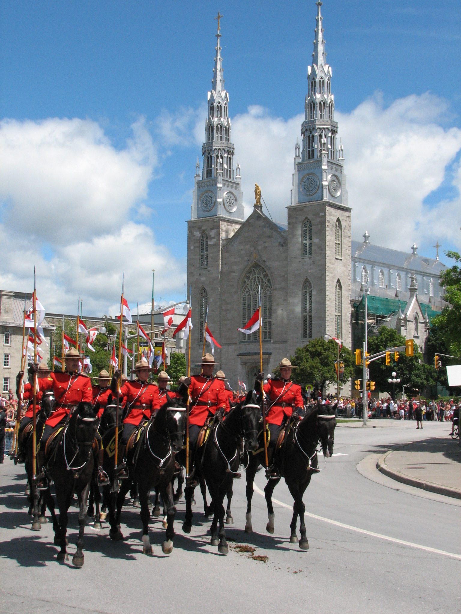 The RCMP escort for Queen Elizabeth's and Prince Philip's July 1, 2010 (Canada Day) visit to Ottawa.